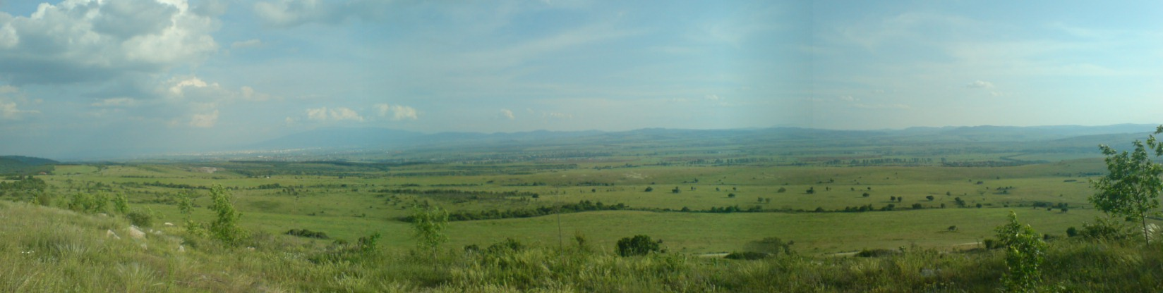 Sofia Valley, view from road "Lomsko shose".